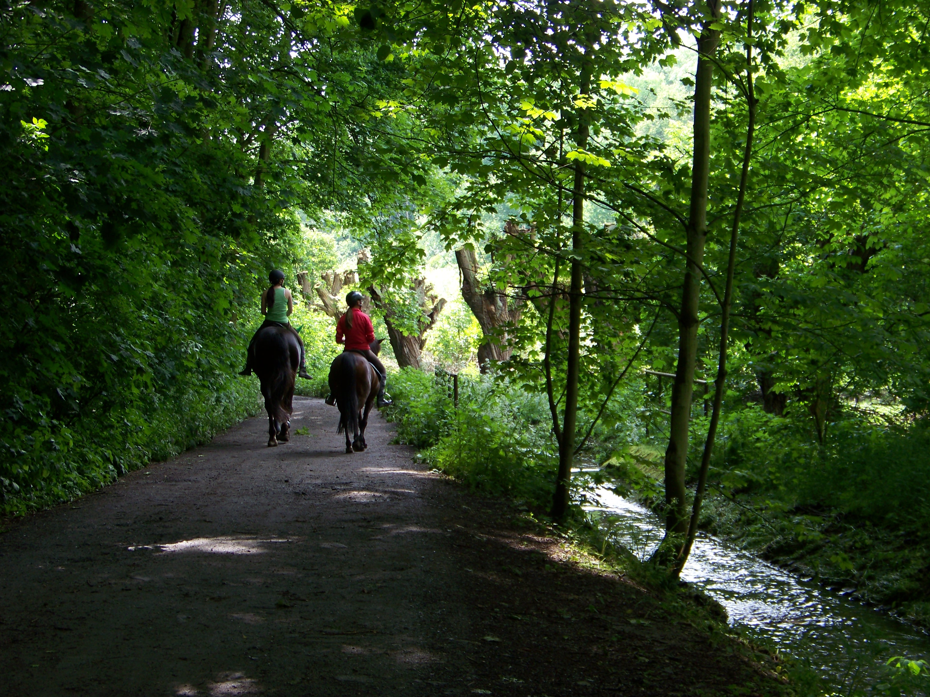 Prague-Čimice, Czech Republic. Drahan Valley, Drahan Creek.